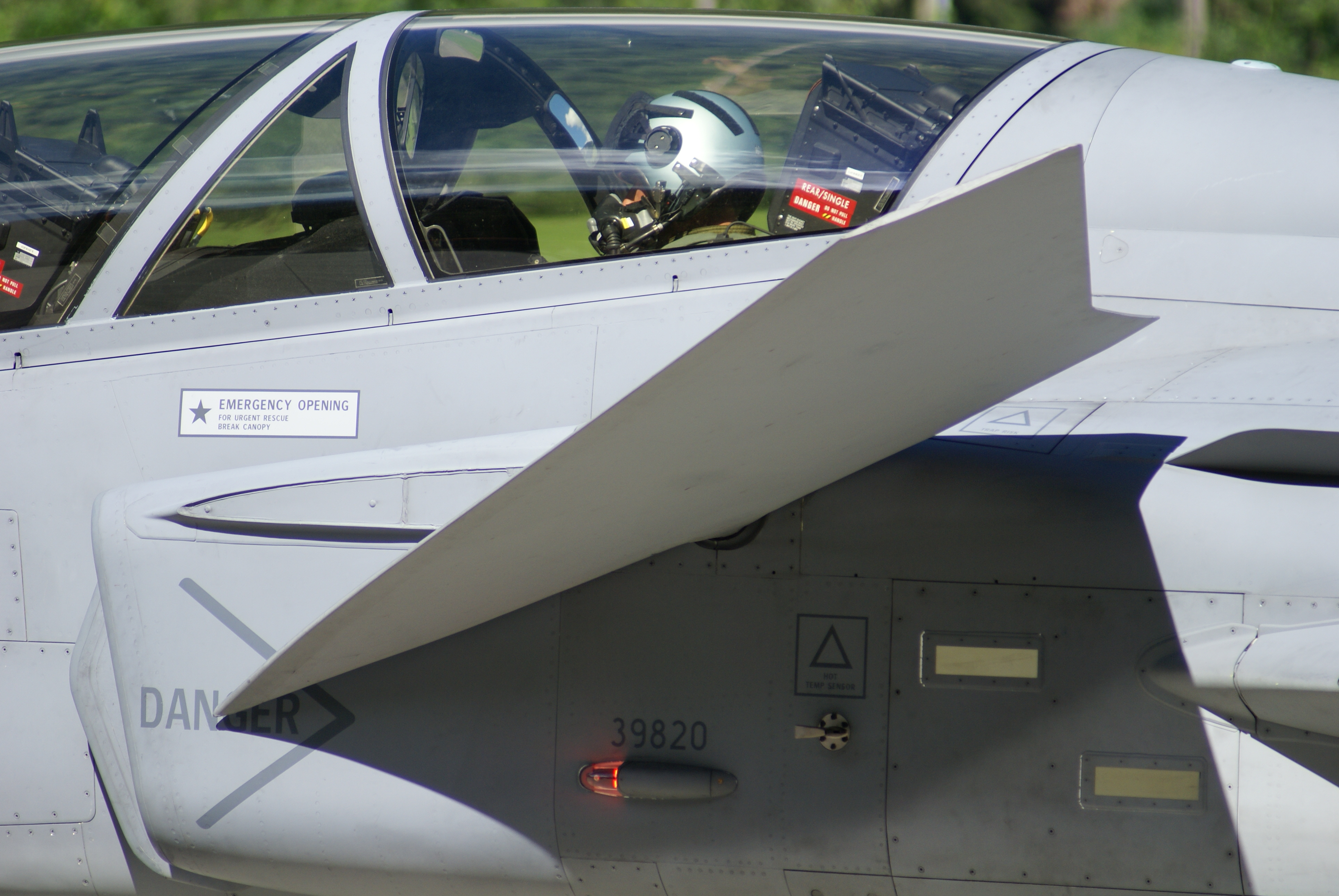 Saab JAS-39 Gripen's Canards.